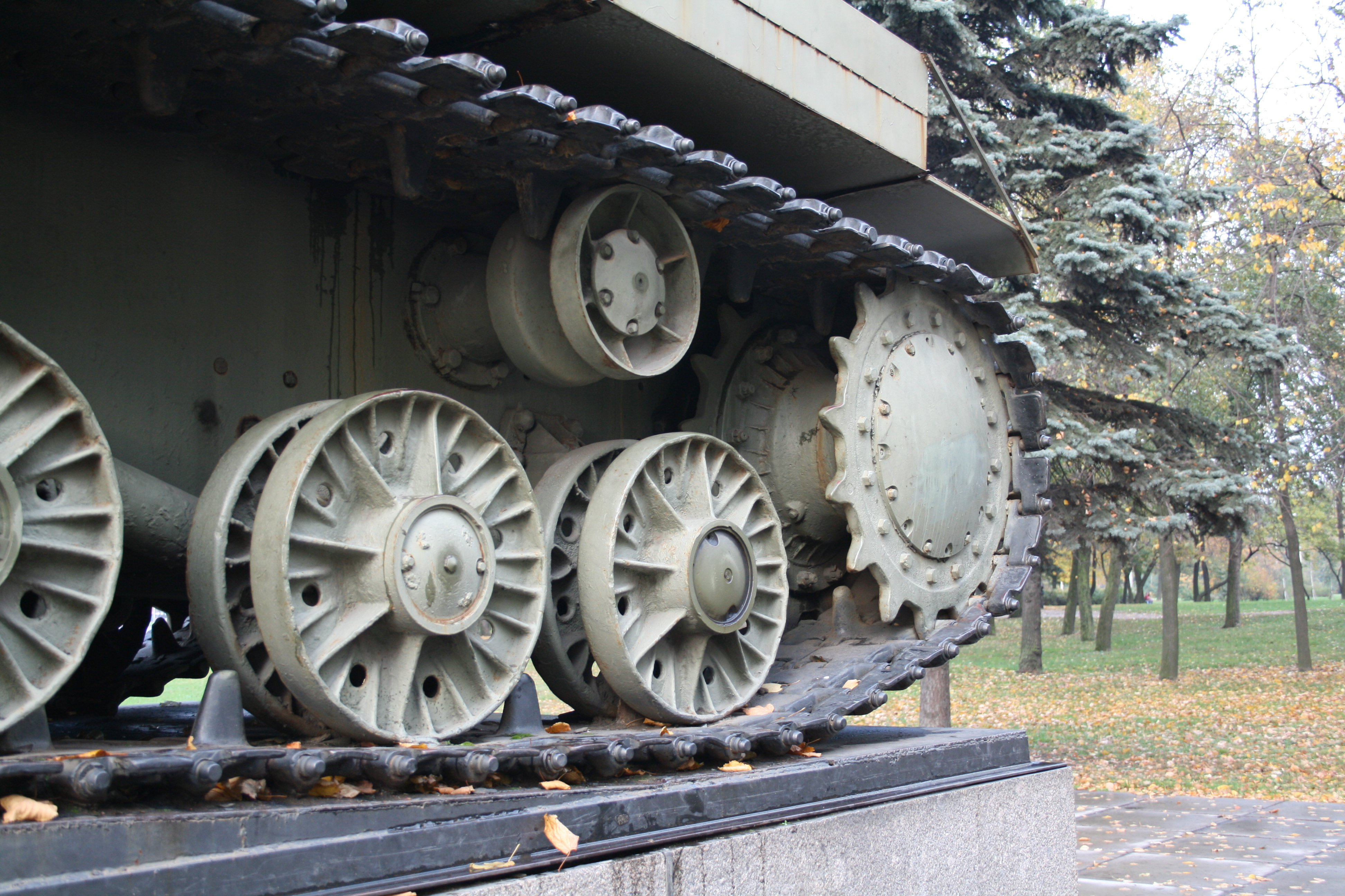 KV-85: driving sprocket